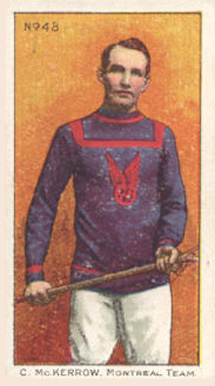 1910 Imperial Tobacco card depiction of lacrosee player Clarence McKerrow of the Montreal Club.